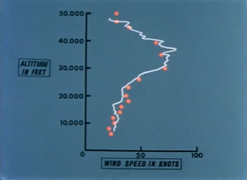 Before Nike Smoke, using balloons to high horizontal wind studies.